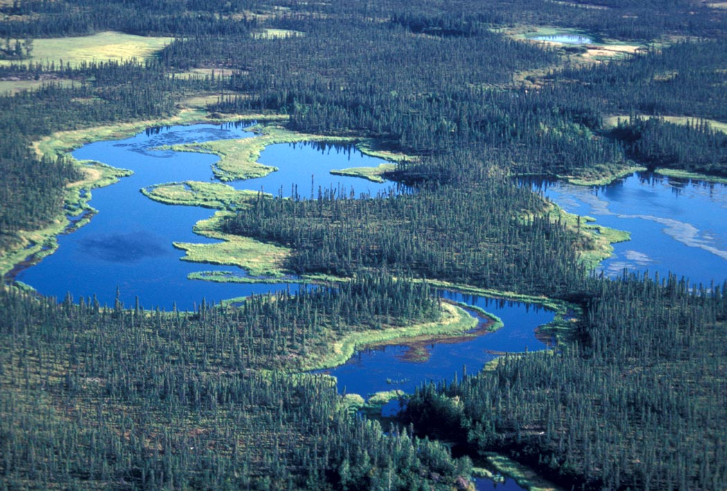 Wetlands and Spruce Forest, Koyukuk National Wildlife Refuge